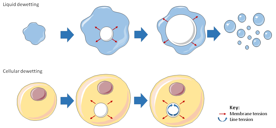 Diagram illustrating the physical analogy between liquid and cellular dewetting.